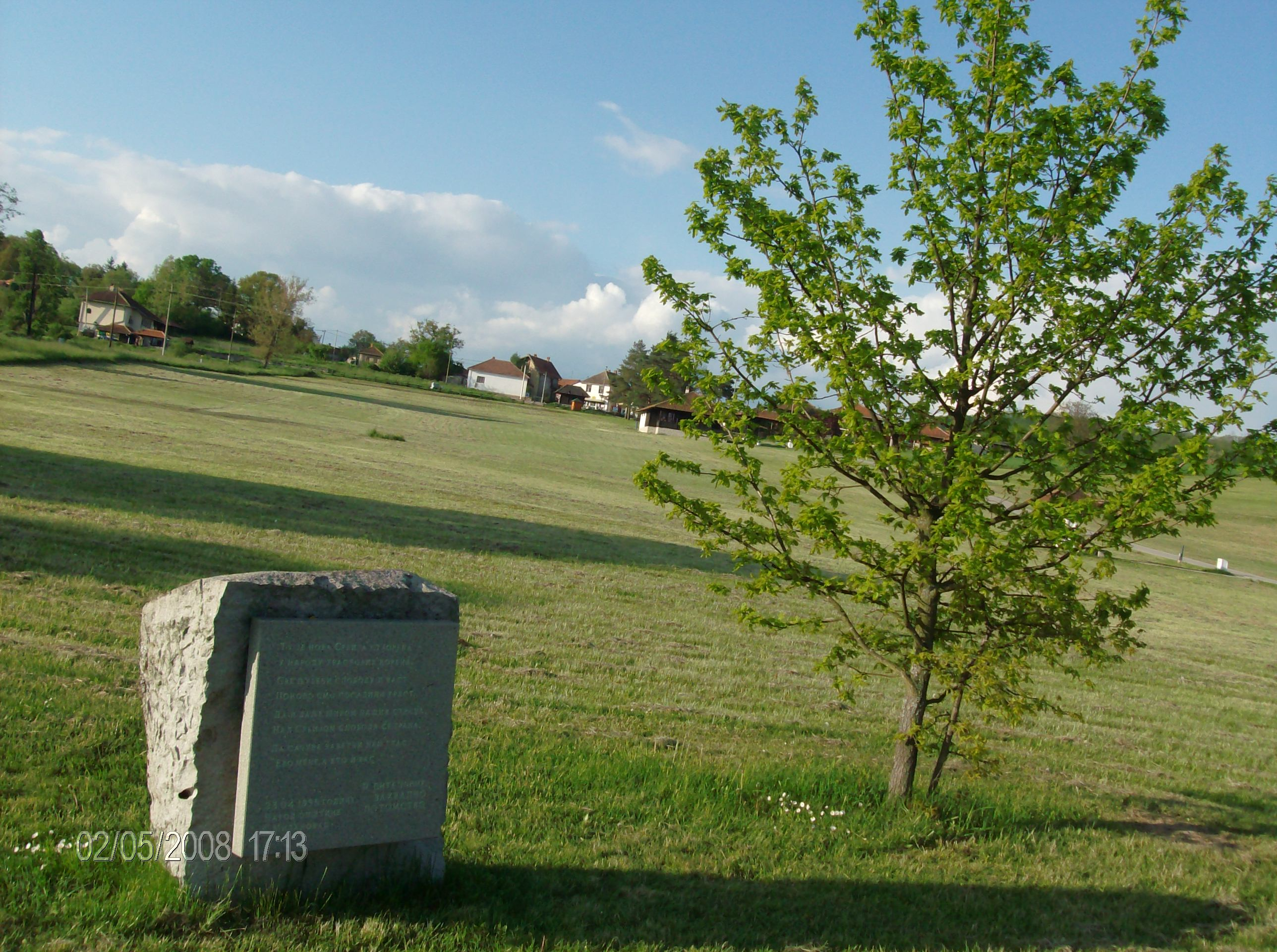 The Young Takovo's Oak Tree